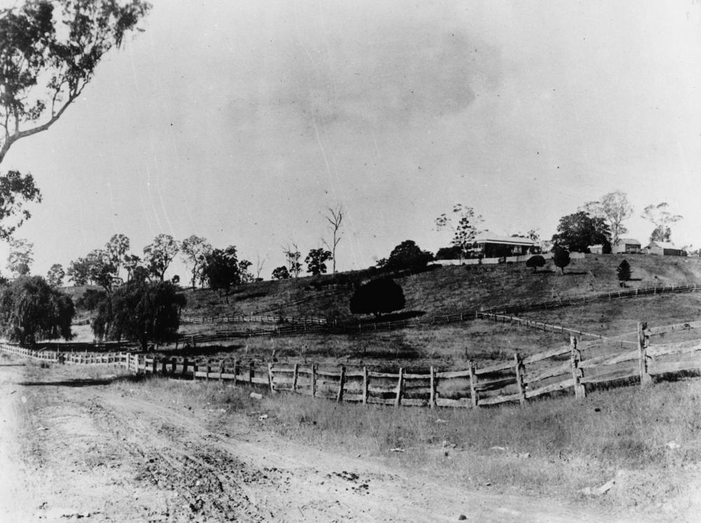 James Brimblecombe's residence 'Fairview' at Brookfield, Brisbane, 1920s Brookfield, early 1920s. Fairview, the home of James Brimblecombe, was built in 1875. (Description supplied with photograph) Fairview was the second home of the Brimblecombe family, who were pioneers of the Brookfield area. James Stephens Brimblecombe arrived in Brisbane in April 1869 from the Hunter River district of New South Wales. He obtained 71 acres of scrub land on Gold Creek and within a few months had built a small home of hardwood slabs which was named 'Bannerfield'. His wife, Lucinda, and children arrived shortly after. Fairview was built in 1874 on Rafting Ground Road being closer to the local school and church. For a time a room off the verandah at Fairview operated as the local post office. The Brimblecombes prospered at dairying and agriculture, selling butter and eggs. James died in 1915 and his wife, Lucinda, in 1912. Brookfield, regarded as one of Brisbane's later developing suburbs, actually was one of the earliest areas settled. The fertile country in the district was farmed as early as 1850 with dairying and small crops being the main occupation. By the early 1870s population growth warranted the establishment of the first primary school in the area. Timber getting was also an early industry and there are the remains of a number of old gold mines in the district.